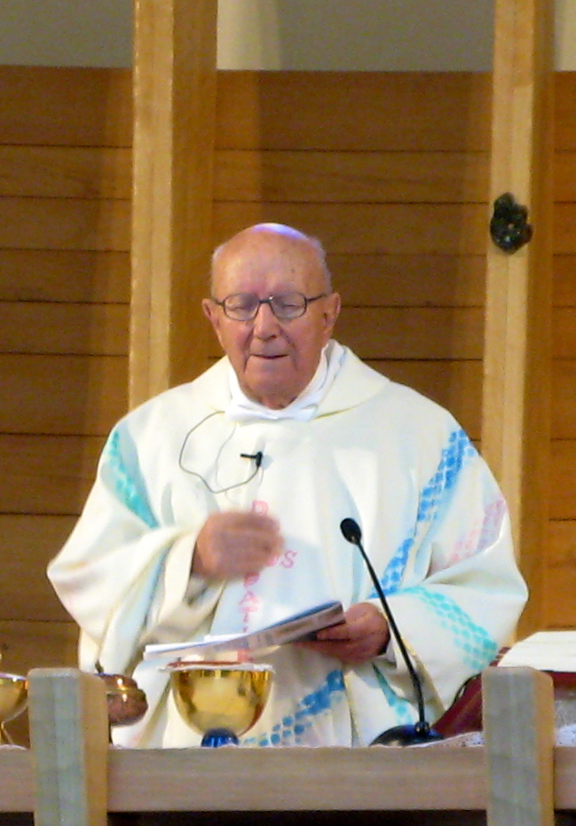 Don Luigi Maria Verzé (14 mar 1920) celebrating the Holy Mass in Università Vita-Salute San Raffaele, Milan